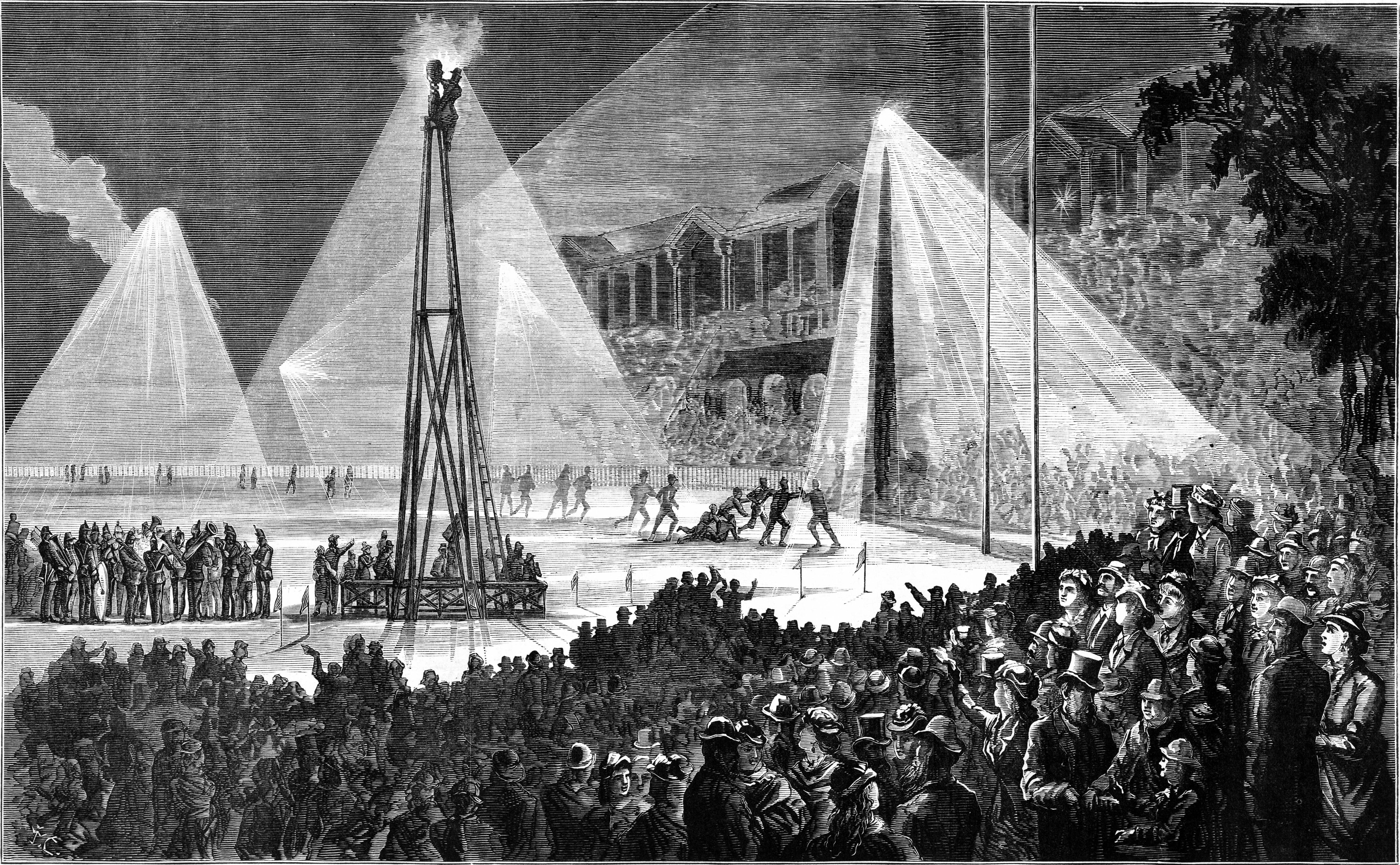 An Australian football match played under electric lights at the Melbourne Cricket Ground, 30 August 1879.